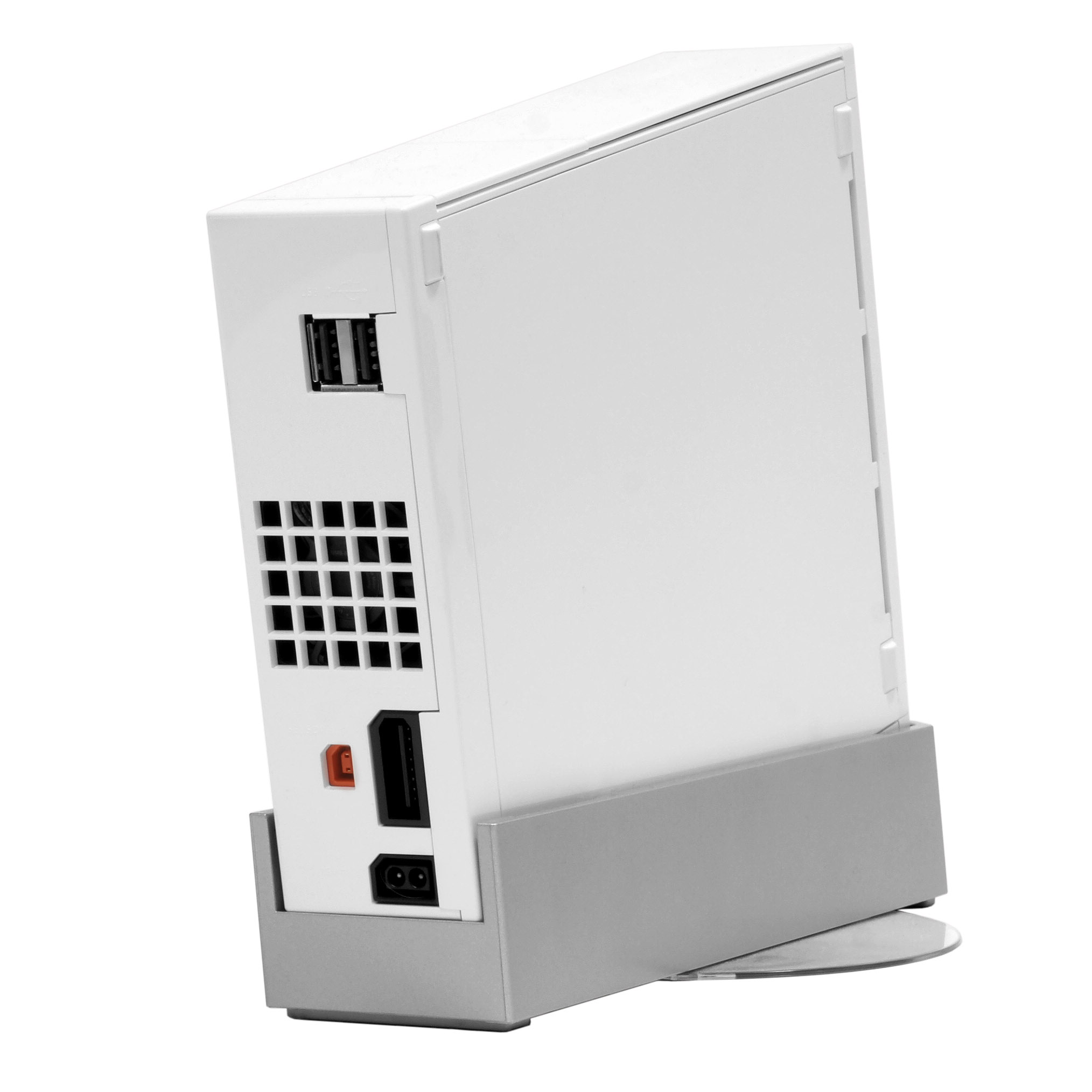 The back of the Wii console, showing its inputs and outputs. The bottom-most port is the power in, above it is the A/V out. The Wii broke from the previous A/V plug that was used on the SNES, N64 and Gamecube in favor of one that could output progressive-scan video. The red port is for the infrared bar. At the top are two USB ports.